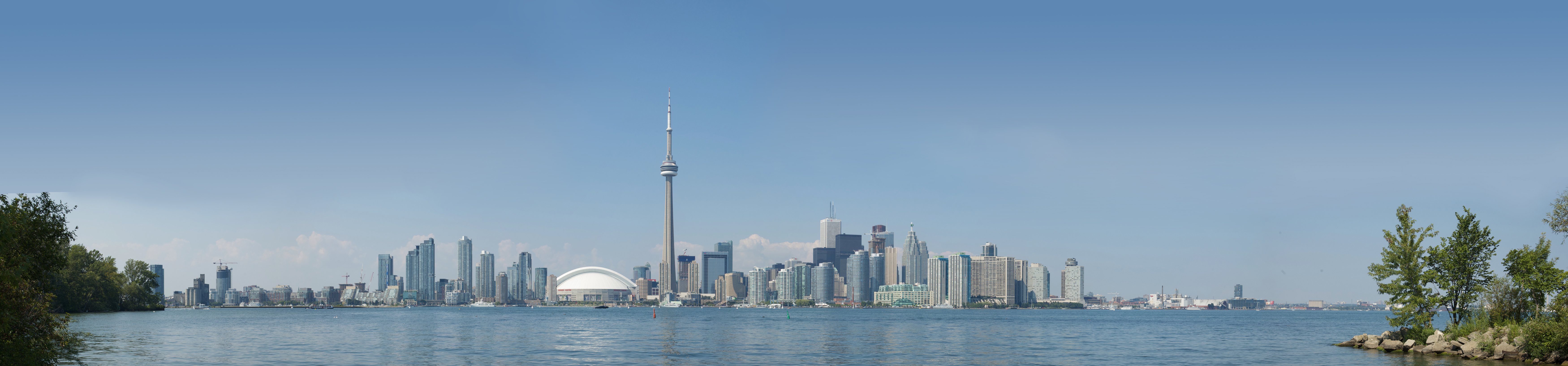 Toronto, Ontario skyline as seen from Centre Island